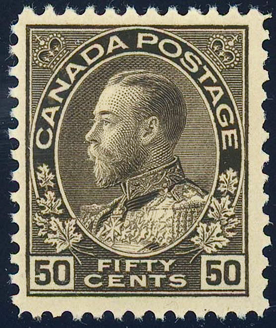 Canadian postage stamp, KGV, 1915 issue, 50c, black